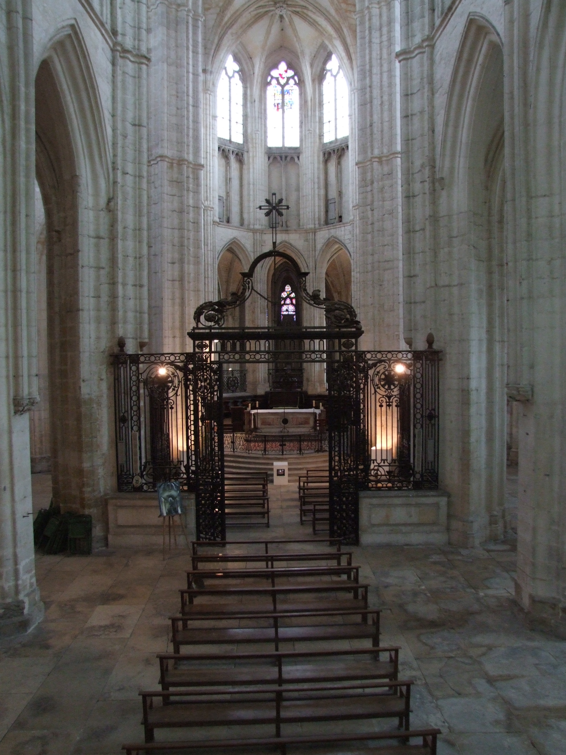 Saint-Germain abbey, Auxerre, Yonne, Burgundy, FRANCE